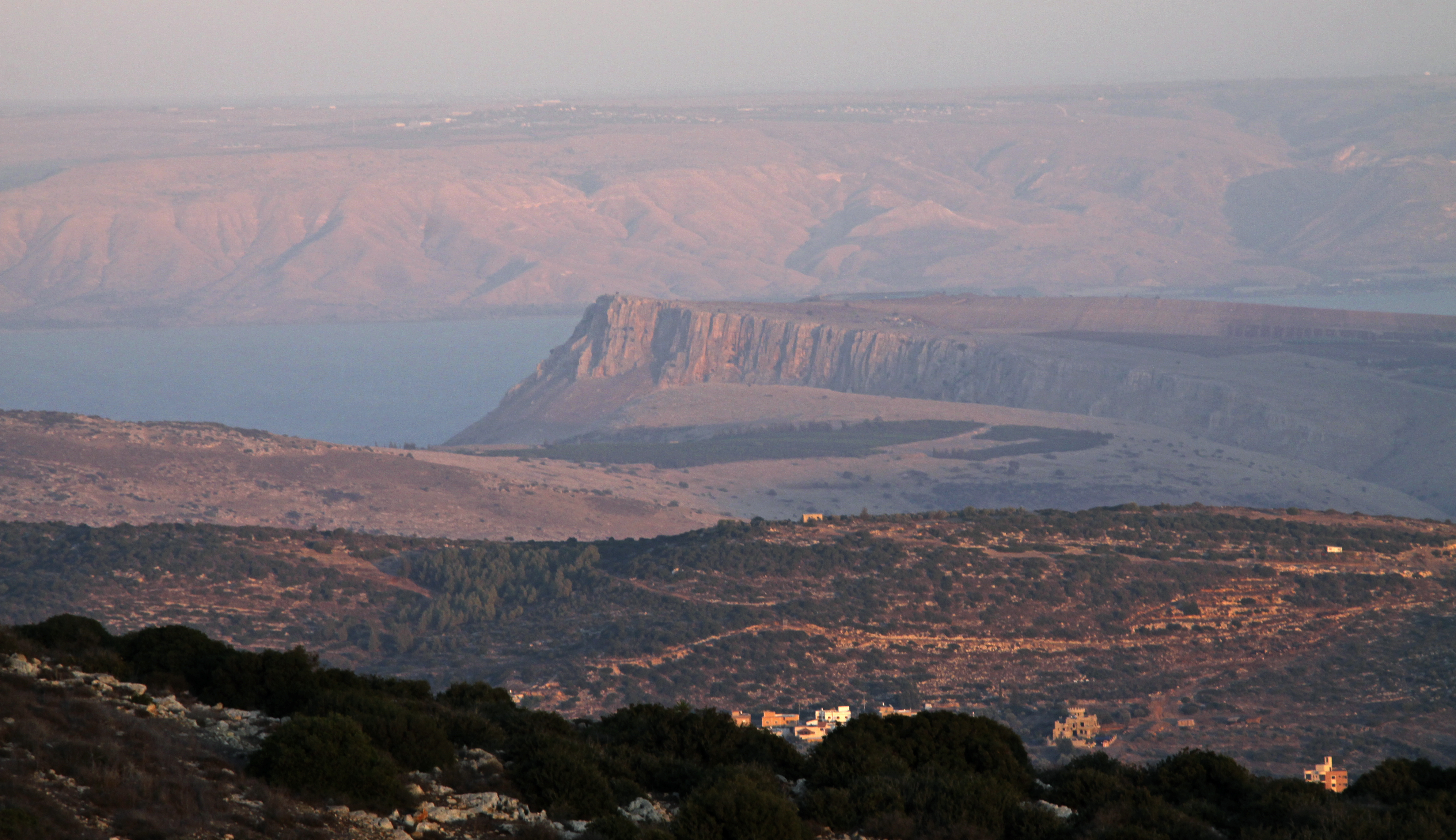 View of Mount Arbel as seen from Hararit, Israel. (October 2011) Behind Mount Arbel the Sea of Galilee and Golan Hights can be seen.